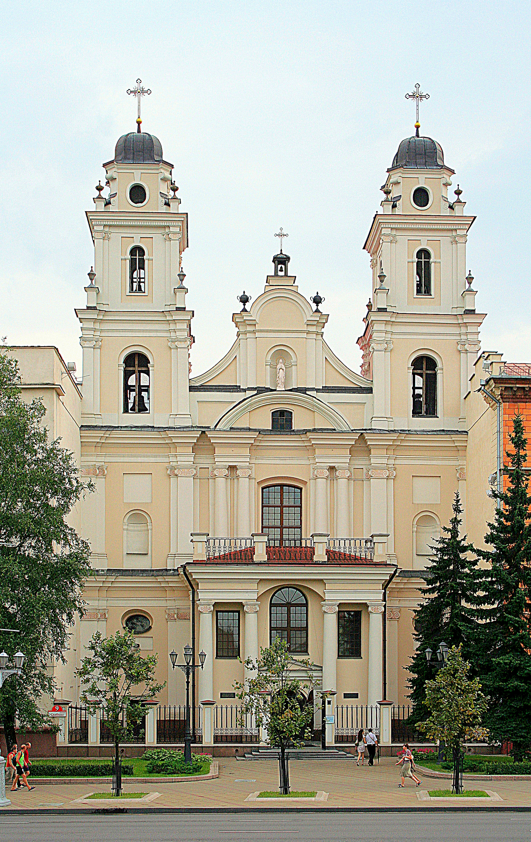 Views of Minsk (Belarus). Catholic St. Mary church.